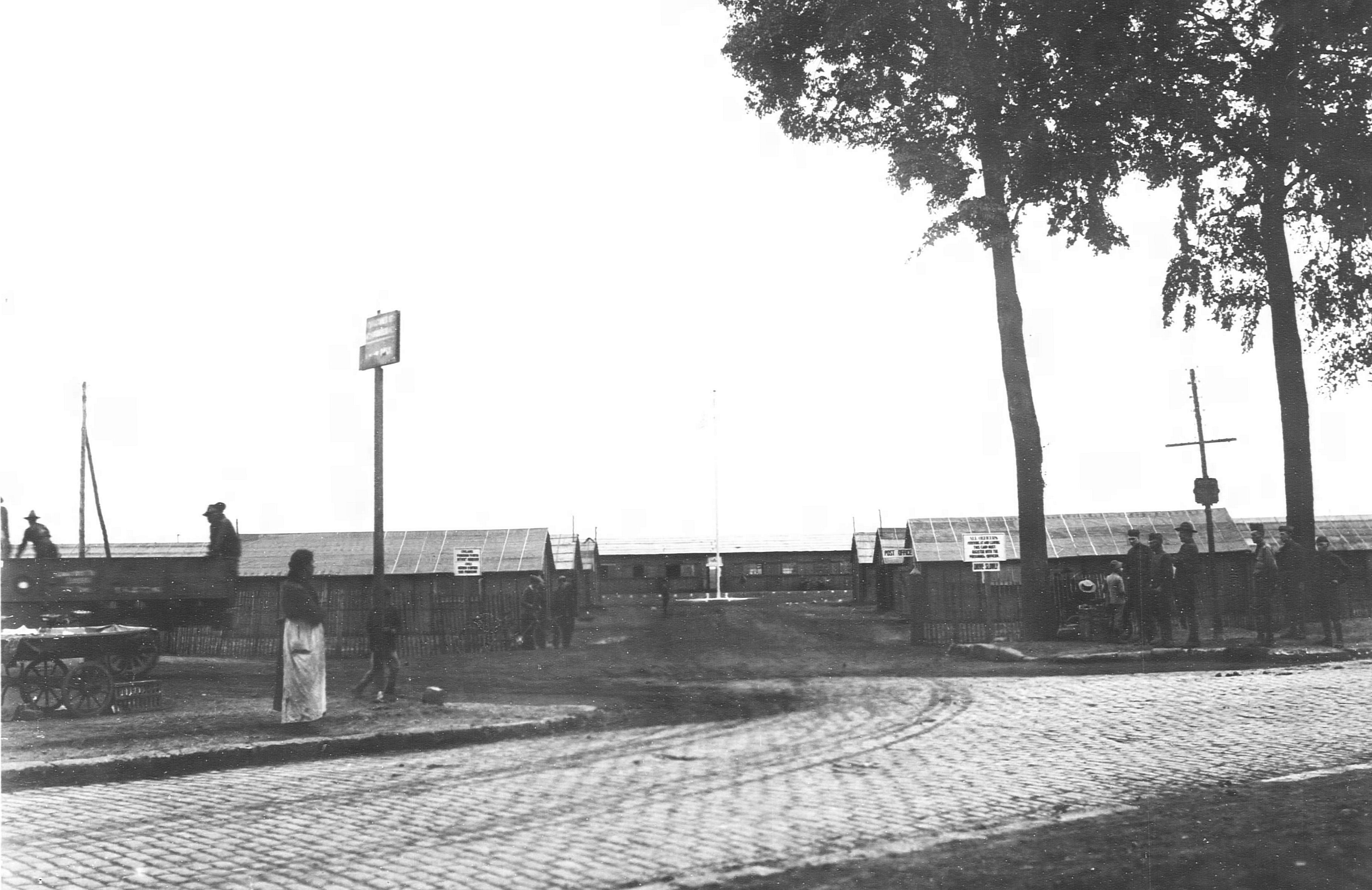 Orly Aerodrome - Headquarters Buildings, 1918